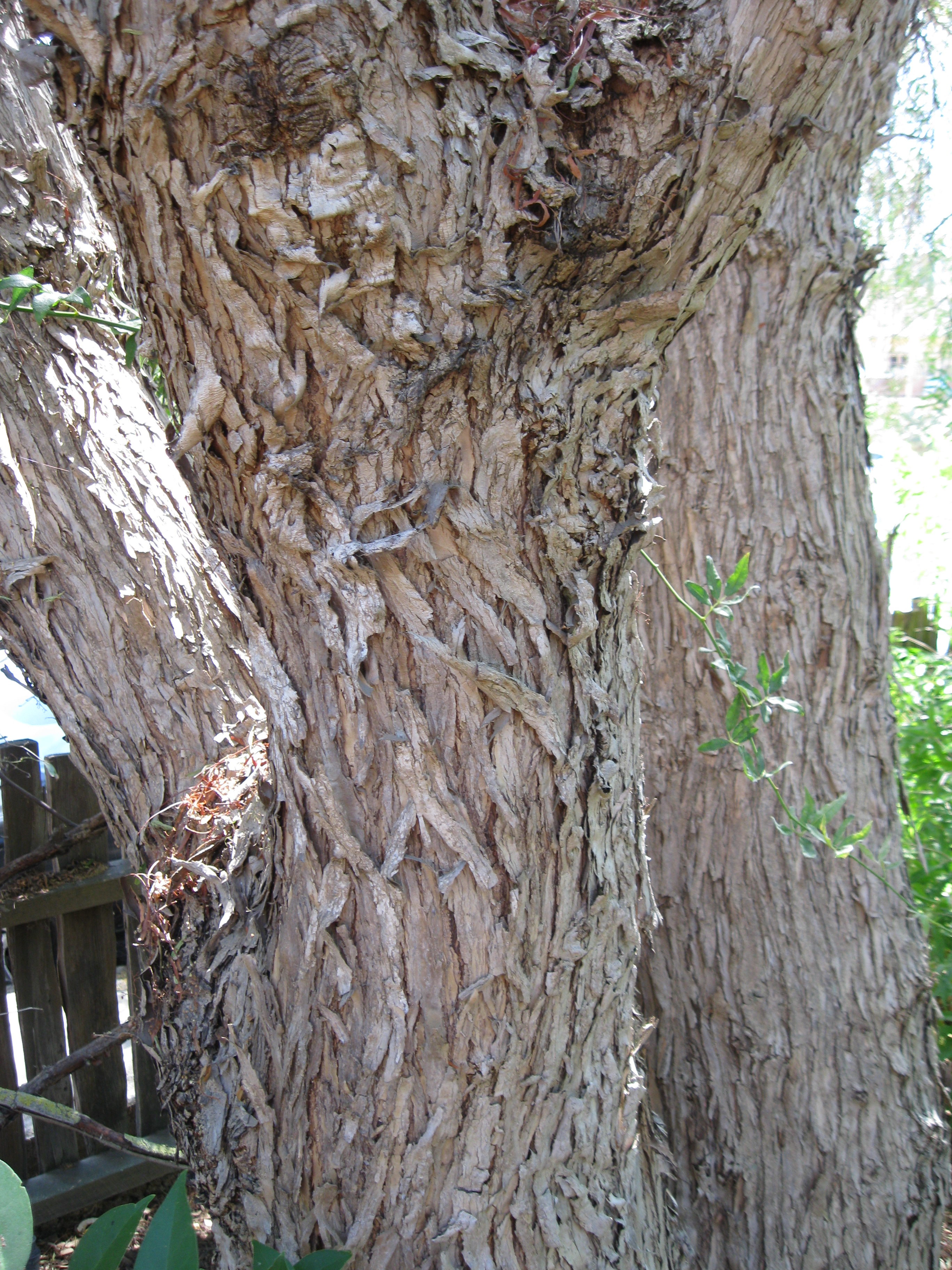 Closeup of tree bark of Peruvian Pepper Tree (Schinus molle), from the garden near the mission in San Juan Bautista, California.